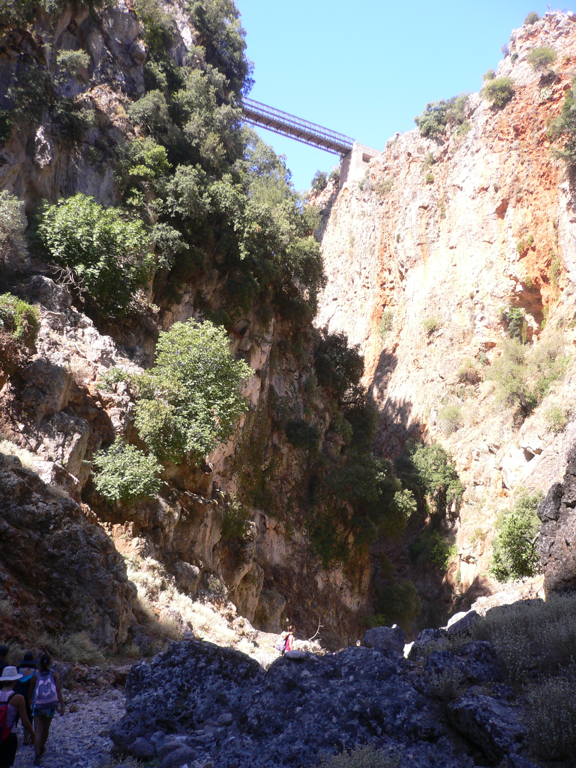 entrance Aradena Gorge